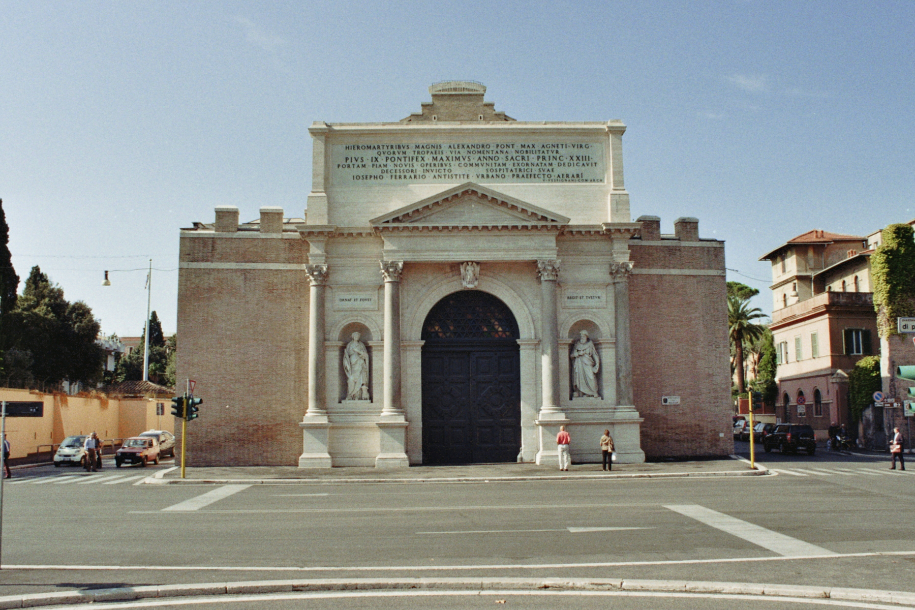 Country façade of Porta Pia in Rome